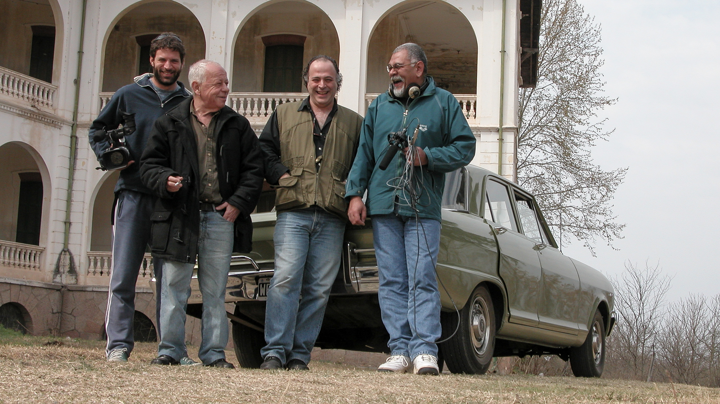 Andres Rivera and crew on the set of "Marcos Ribak aka Andrés Rivera" a documentary by Eduardo Montes-Bradley. From Left to Right: Alejandro Ortiz (camera), Andrés Rivera, Eduardo Montes-Bradley (director), Norberto Ramirez (sound).